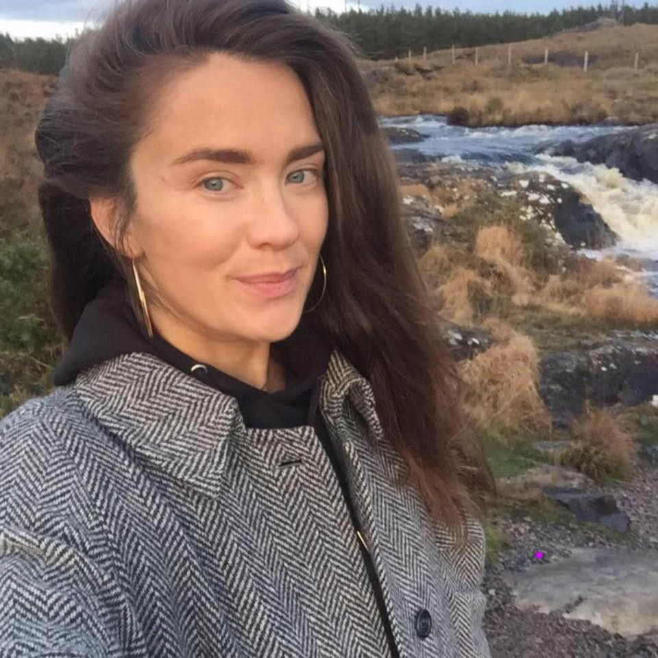 Publicity photo of Linda Bhreathnach (2018)